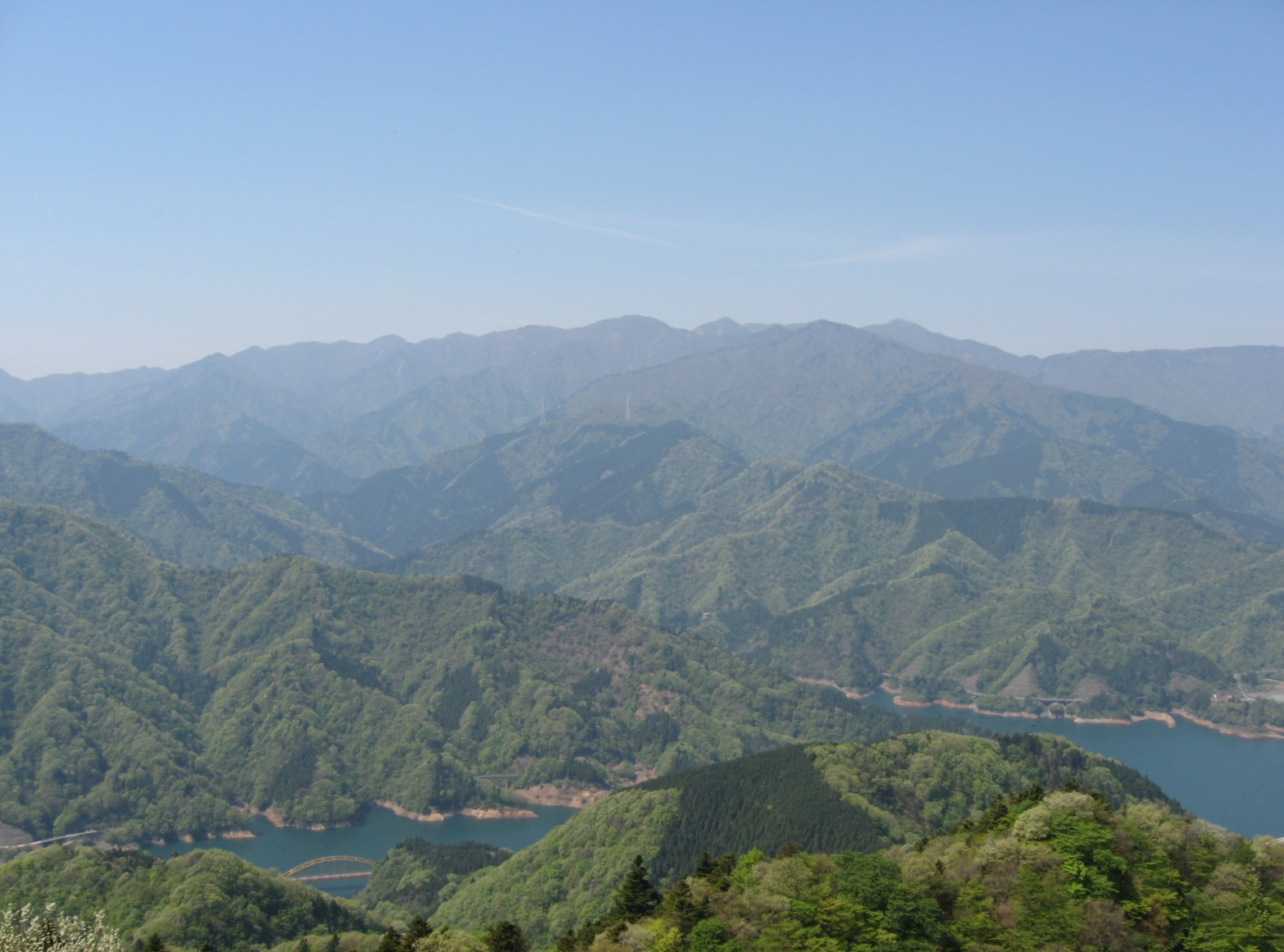 Tanzawa Mountains seen from Mount Bukka